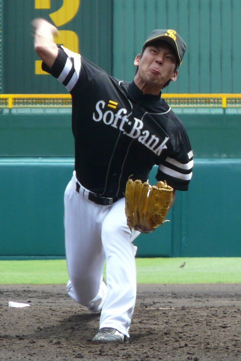 Syota Oba